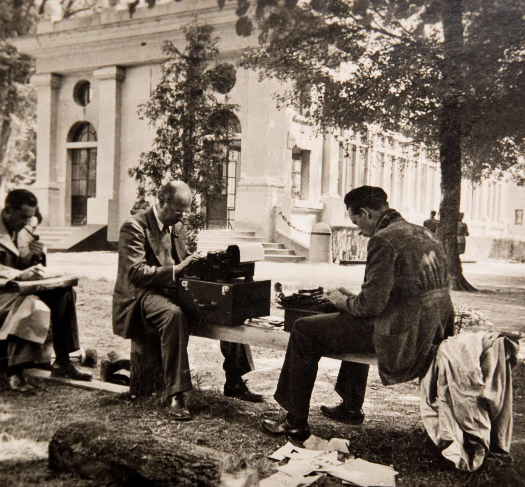 CBS war correspondent William L. Shirer in Compiegne, France, reporting on the signing of the armistice between Germany and France on June 22, 1940. The building in the background enshrines the railroad car in which Marshal Foch accepted the German request for an armistice ending WWI on November 11, 1918.